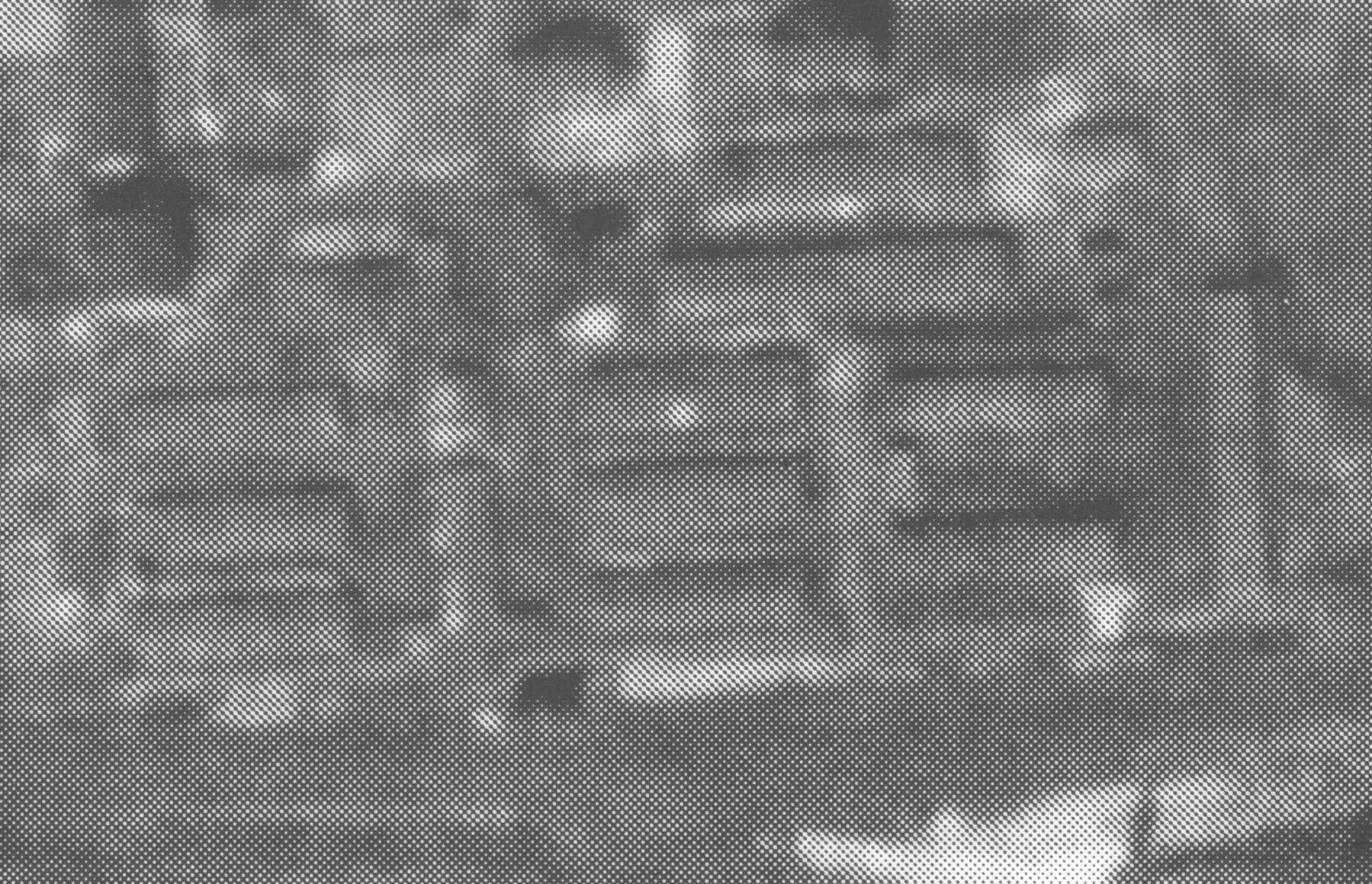 Außenlager Annener Gußstahlwerk des KZ Buchenwald (Subcamp Annen Steelworks of concentration camp Buchenwald) in Witten: aerial image